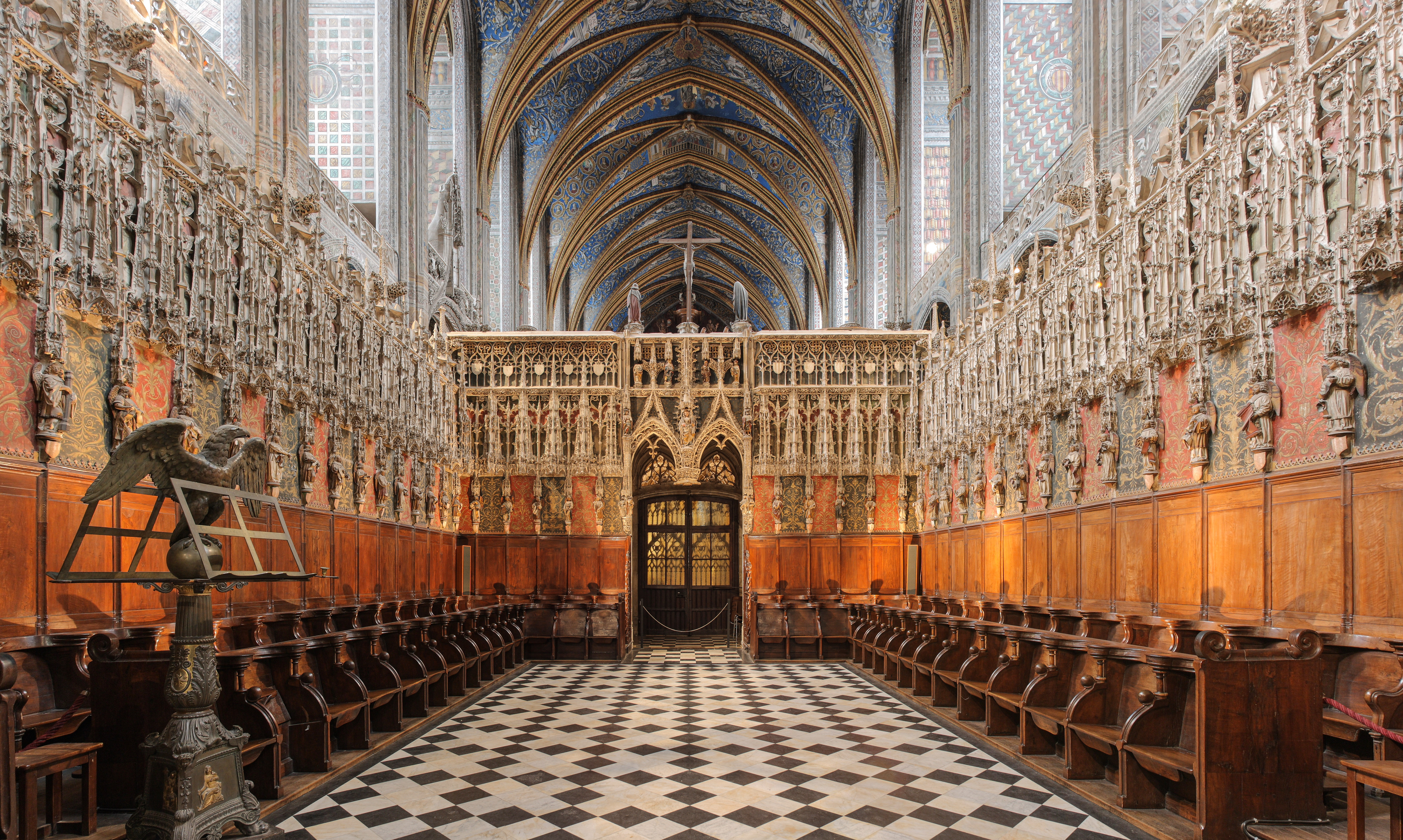 Choir and east side of the rood screen of Sainte-Cécile cathedral, Albi, Midi-Pyrénées, France